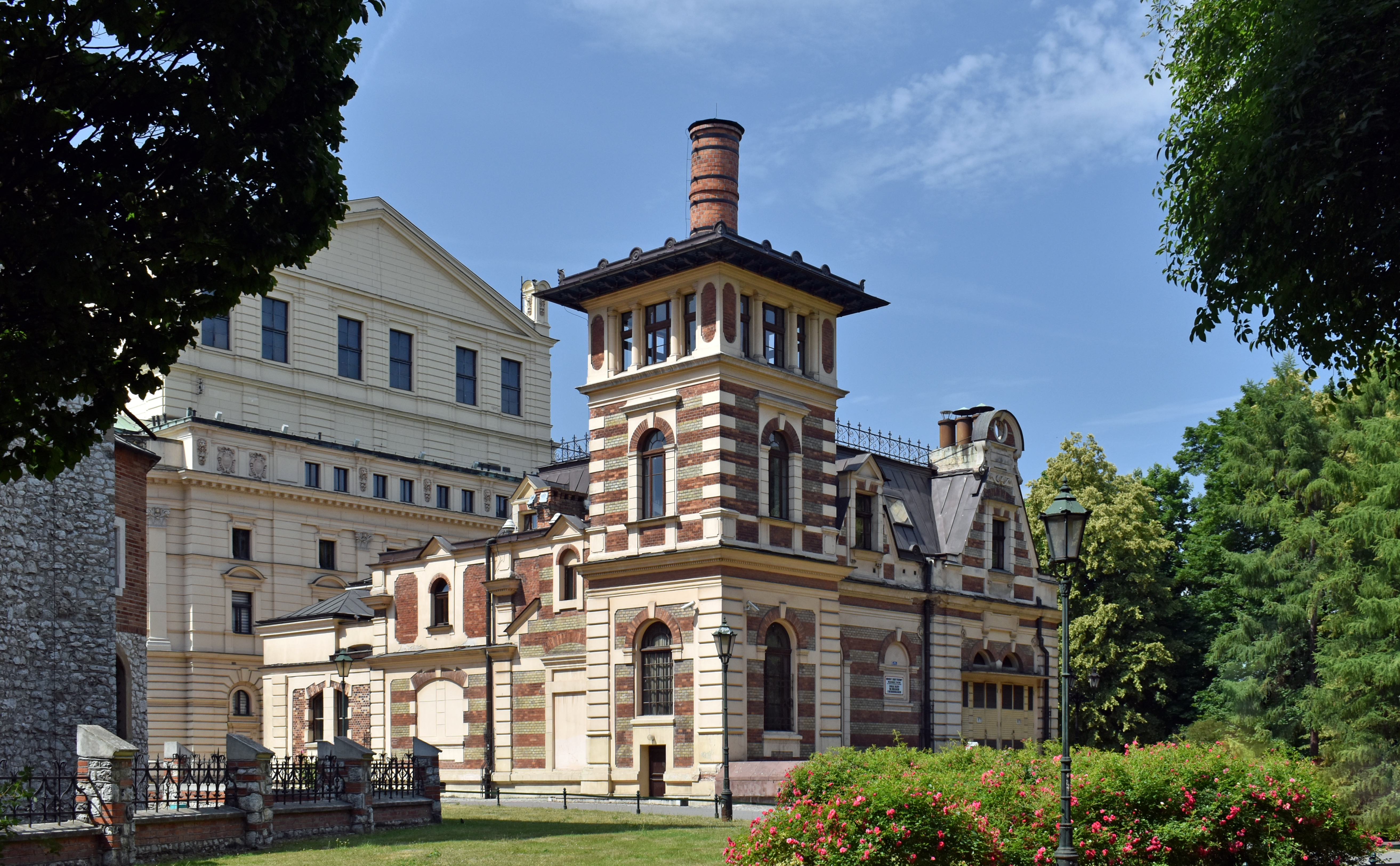 Juliusz Slowacki Theater (Small Stage Miniatura), 2 Sw. Ducha square, Old Town, Krakow, Poland